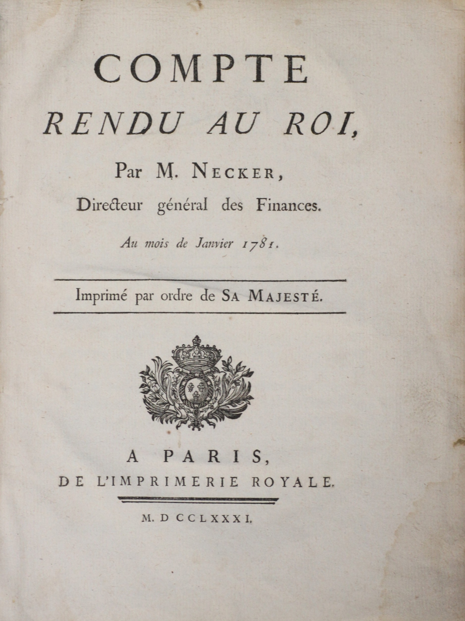 Compte Rendu au Roi by Necker, Paris 1781